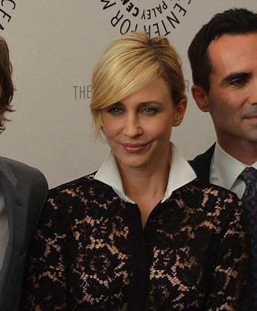 Vera Farmiga at Paley Center for Media for the Bates Motel: Reimagining a Cinema Icon panel.